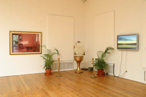 installation for Lodz Biennale 2004 by Ryszard Wasko called "Marcel or dream with parrot"